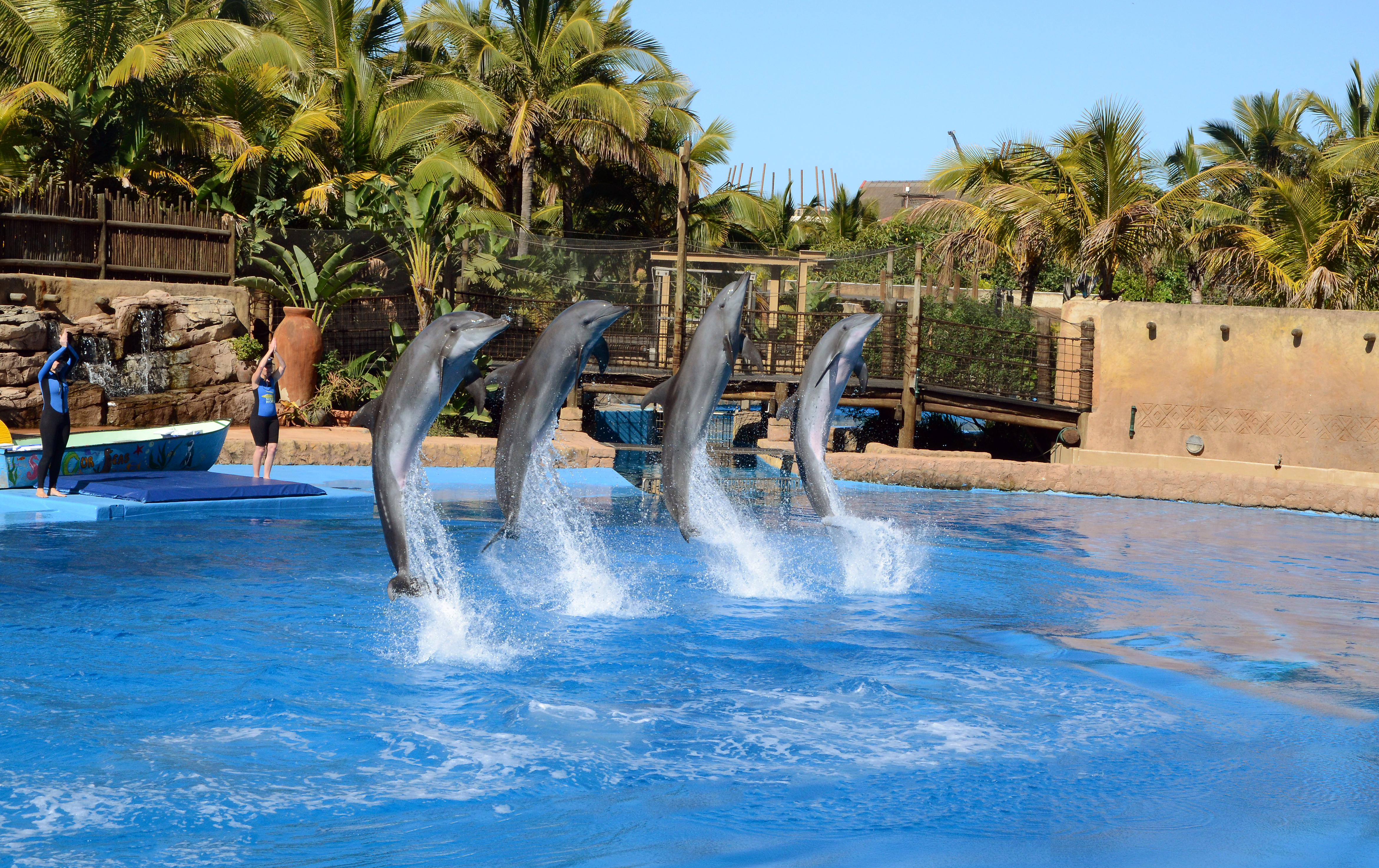 Dolphin show in the uShaka Seaworld, Durban